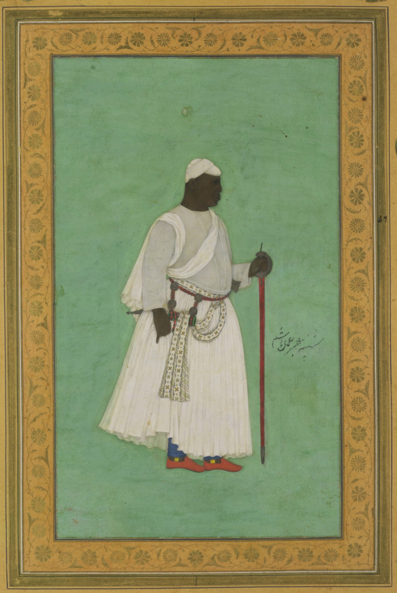 Malik Ambar was born in Ethopia in 1548 with the name Chapu and was sold into slavery. He was eventually bought by a leading member of the Nizam Shahi court of Ahmadnagar, one of the fragile sultanates of the Deccan. The slave became a soldier, and eventually a commander of the Nizam Shahi army, leading it against the Mughal army of the emperor Akbar. By 1600 he had become Regent of the Kingdom, effectively ruling Ahmadnagar until his death in 1626. His army scored significant victories against the Mughals during the reign of Jahangir. The Mughal army was led by Jahangir's son, Shah Jahan, who rebelled against his father in 1624 and sought support from his former enemy. It is likely that Hashim was sent with Shah Jahan's envoy and painted this naturalistic portrait after seeing the subject at first hand.